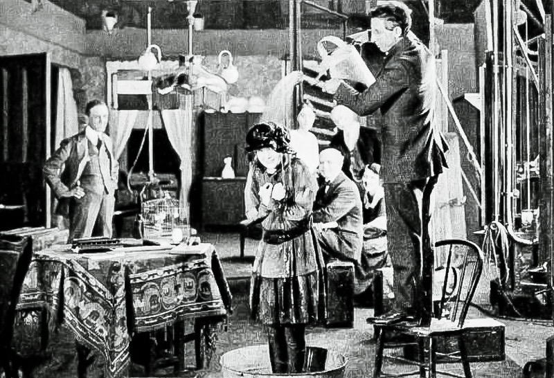 Photograph of film director J. Searle Dawley (right) pouring water over actress Marguerite Clark, preparing her for a scene in the 1918 film Rich Man, Poor Man; published in Photoplay Magazine (Chicago, Illinois), July 1918, p. [71].